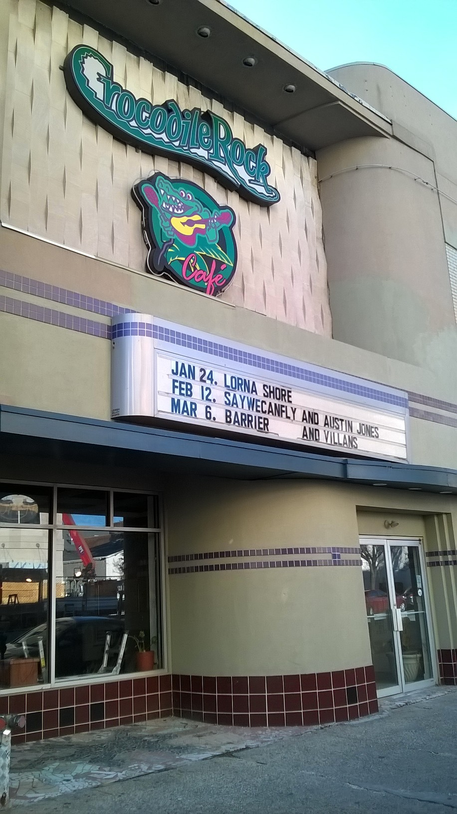 The exterior of Crocodile Rock, a concert venue in Allentown, Pennsylvania.